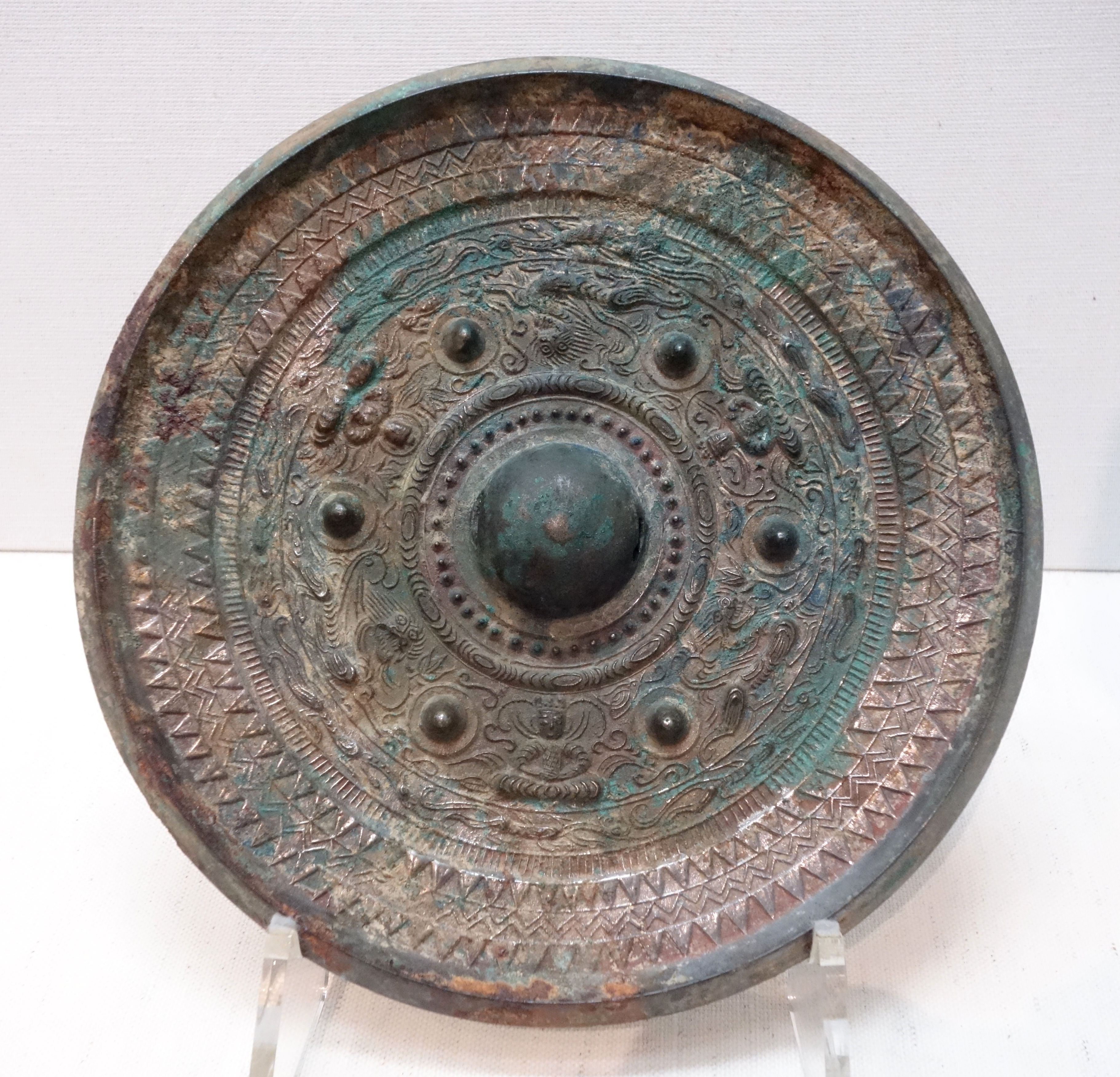 Exhibit in the Tokyo National Museum, Tokyo, Japan. This artwork is old enough so that it is in the public domain.